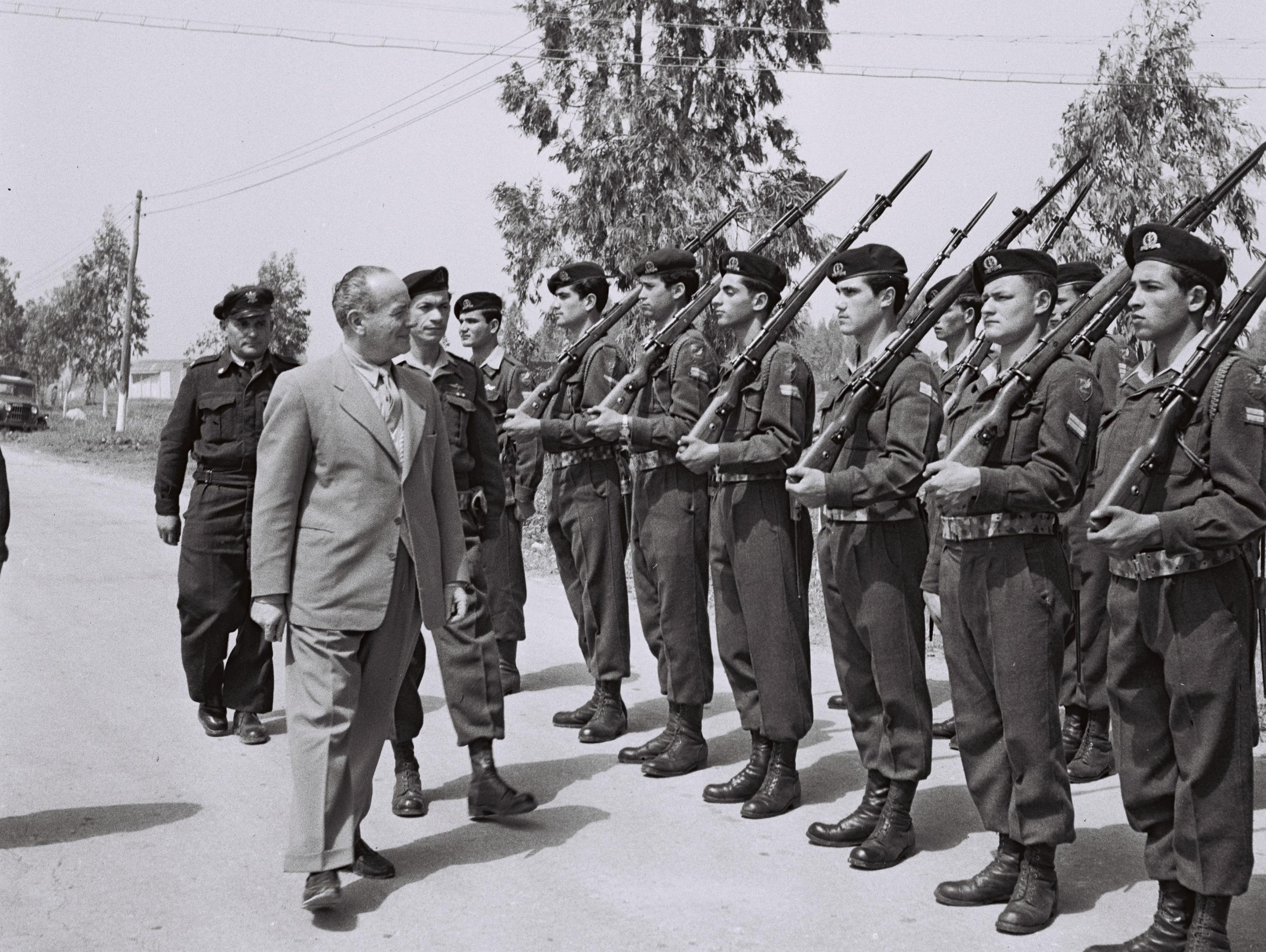 General Pierre Billotte inspecting an honor guard during a visit to Israel in March 1957